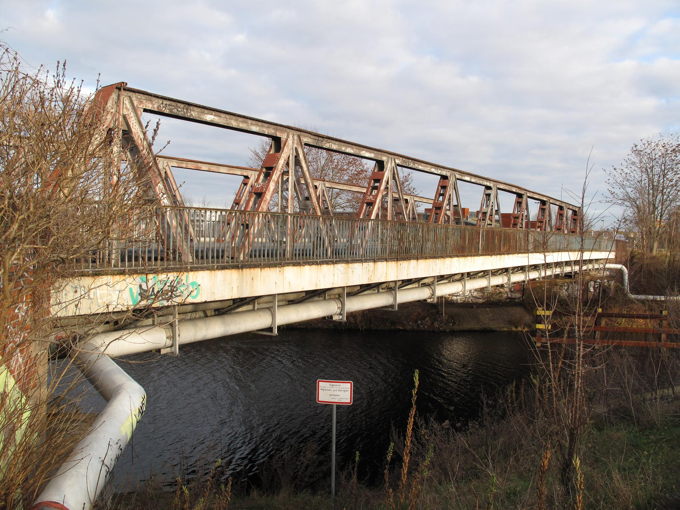 The Altglienicker Brücke was a street bridge of the Köpenicker Straße in Berlin-Adlershof crossing the Teltowkanal (canal). The iron truss bridge was opened in 1950 and replaced the „Oppenbrücke“ from 1906. In 1993 the bridge was closed due to disrepair. In 1995 there was built a temporary girder bridge beside the old bridge.